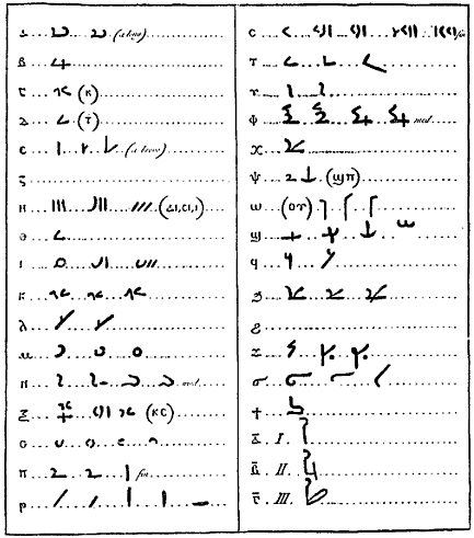 Attempt at an alphabet of the Egyptian Demotic script and their Coptic alphabet equivalents